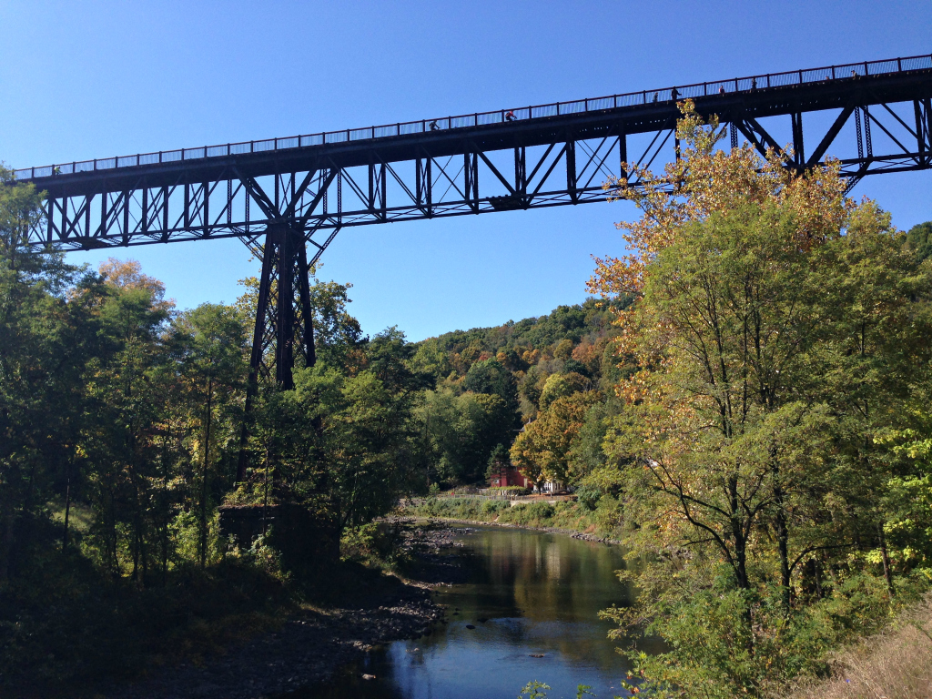 View of the Walkill Valley Rail Trestle, Rosendale NY